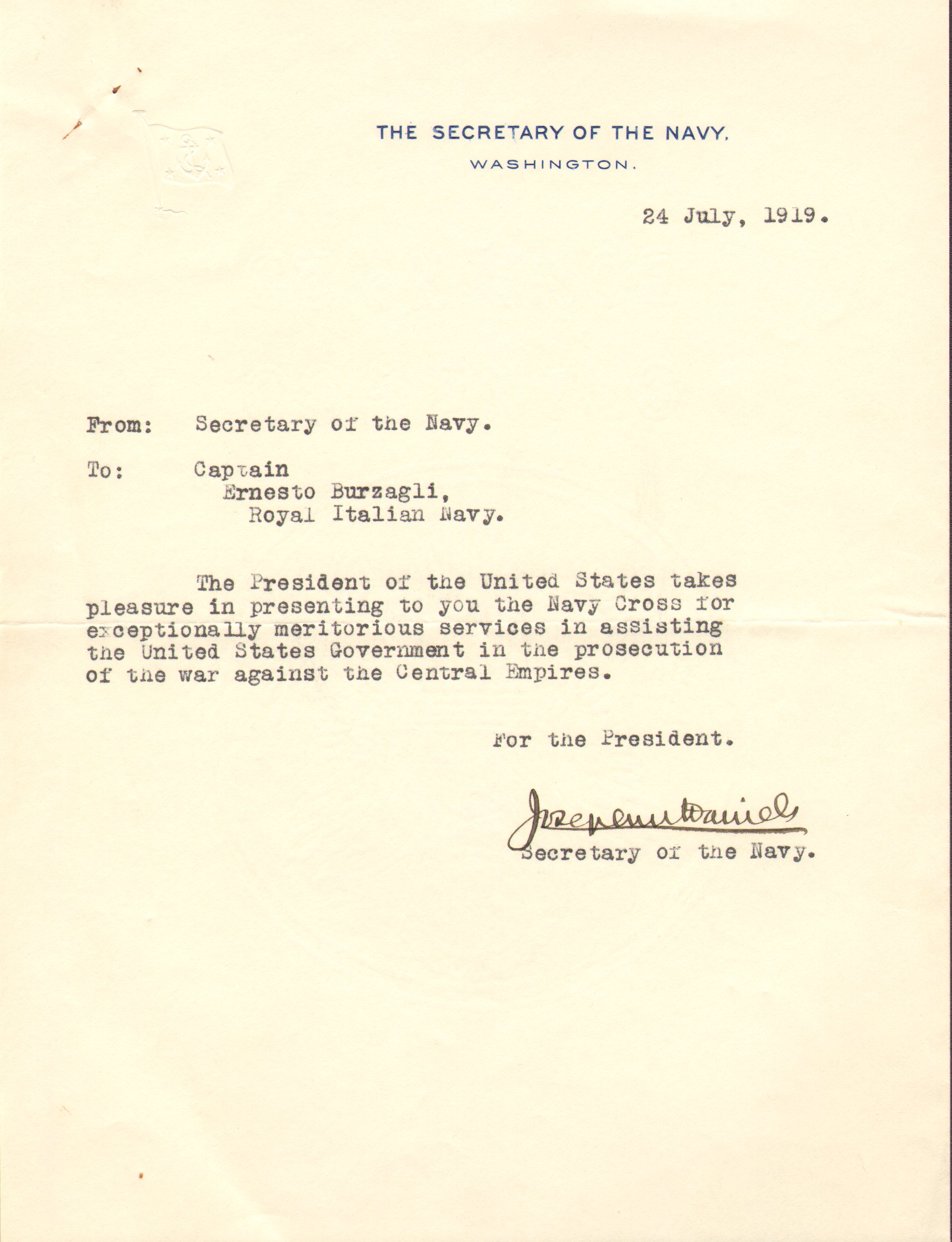 Award of the "US Navy Cross" to Italian admiral Ernesto Burzagli (1873-1944). The original document, scanned by Emiliano Burzagli, belongs to the Private archive of Burzaghi family, Italy.